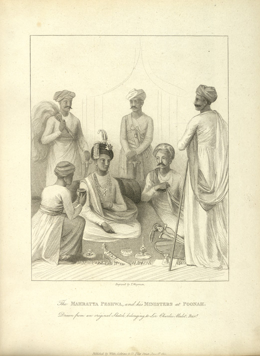 Plate forty-two from the second volume of James Forbes' "Oriental Memoirs". Charles Malet (1752-1815), the Resident of Poona was a close contemporary and a good friend of Forbes. Forbes' (1749-1819) drawing was based on an original sketch made by the English artist James Wales for Malet showing the brahmin Maratha ruler, Peshwa Madho Narain with his ministers.